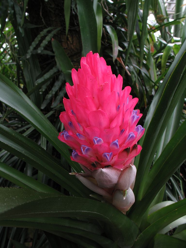 Quesnelia arvensis in cultivation at the Botanical Garden of Heidelberg, Germany.